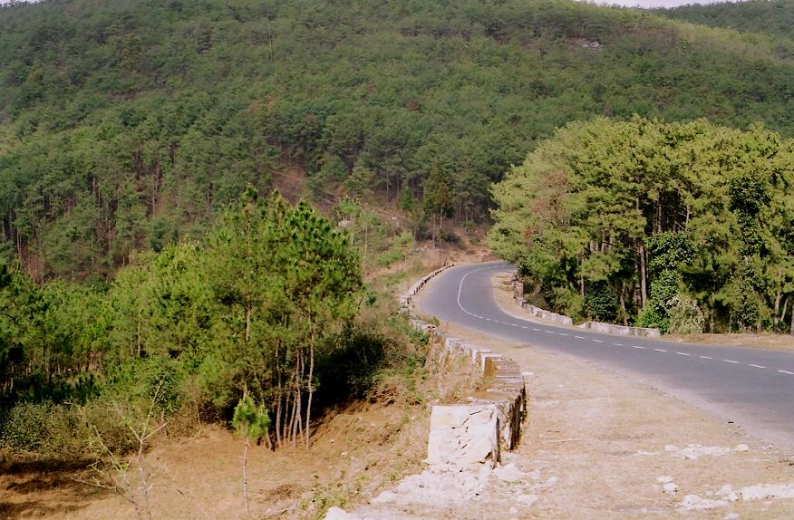 I, RMehra, took this picture myself in February 2005.